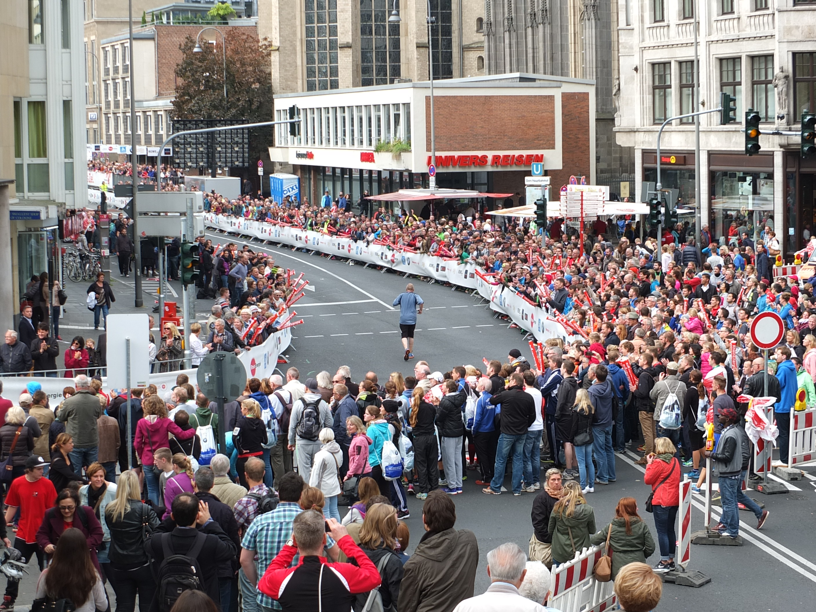 Picture of the Cologne Marathon 2015 (half marathon shown). The last meters before the finish in Komödienstraße are shown.